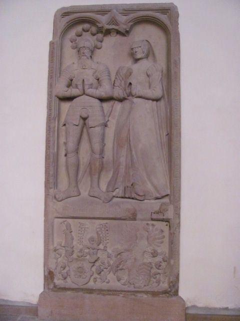 Tomb monument of Wilhelm IV of Eberstein and Johanna of Hanau-Lichtenberg in the church of St. Jacob in Gernsbach